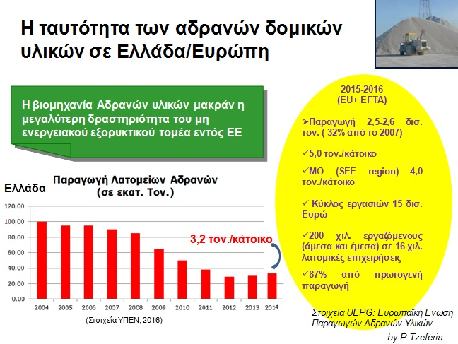 Aggregate Quarries in Europe and Greece